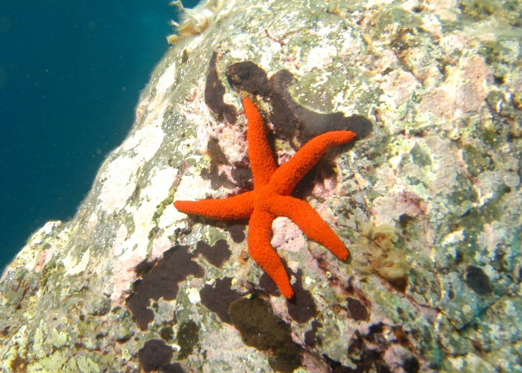 Mediterranean red sea star, Echinaster sepositus.